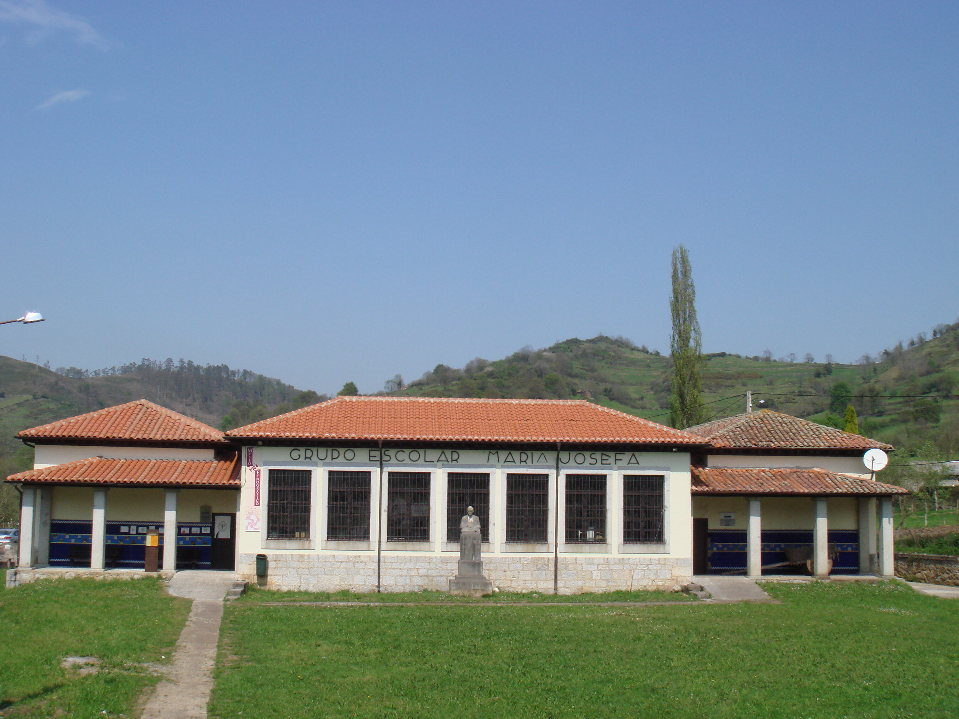 escuela